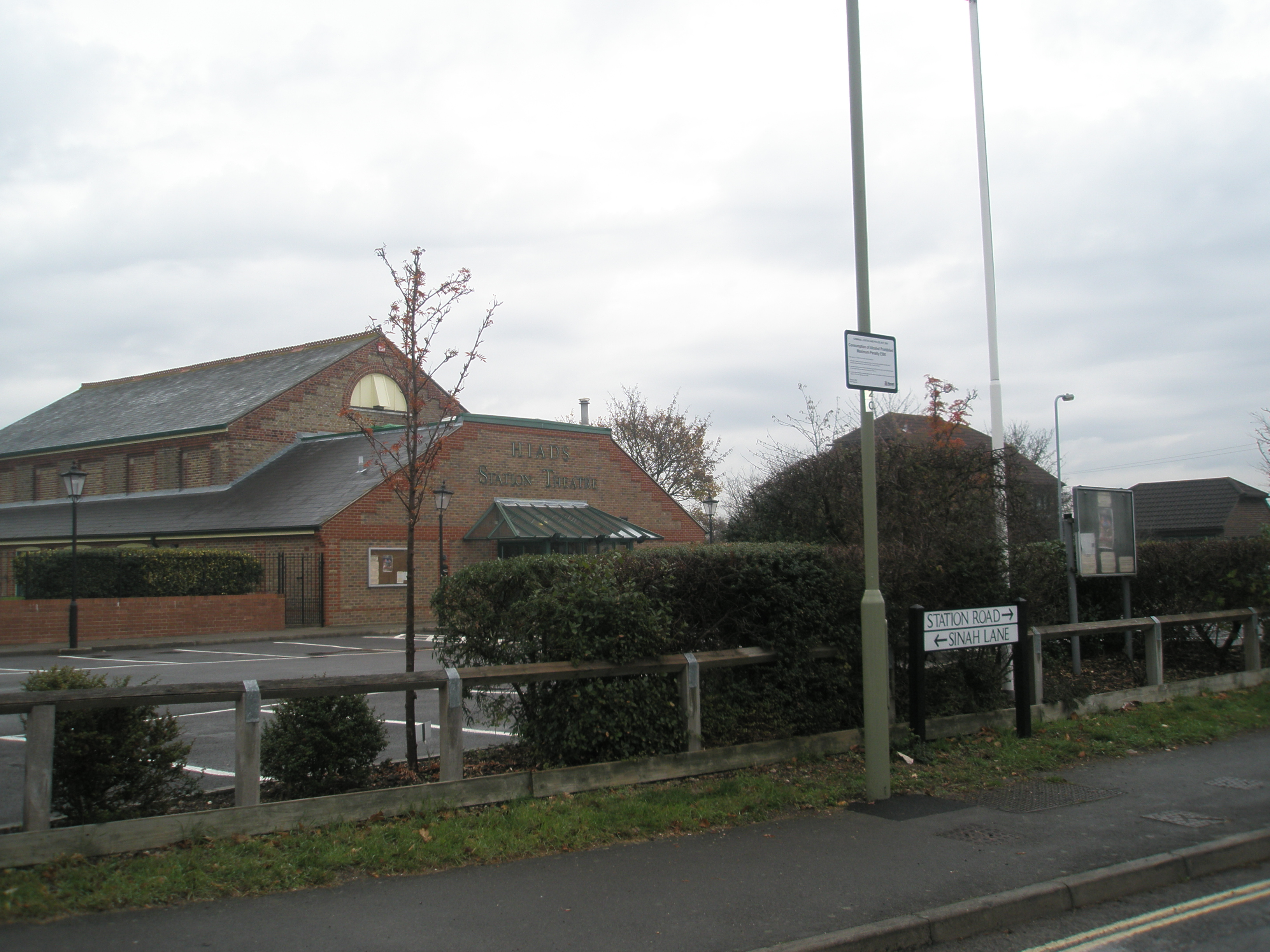 Photo taken by Matthew Eyre, 17th November 2007